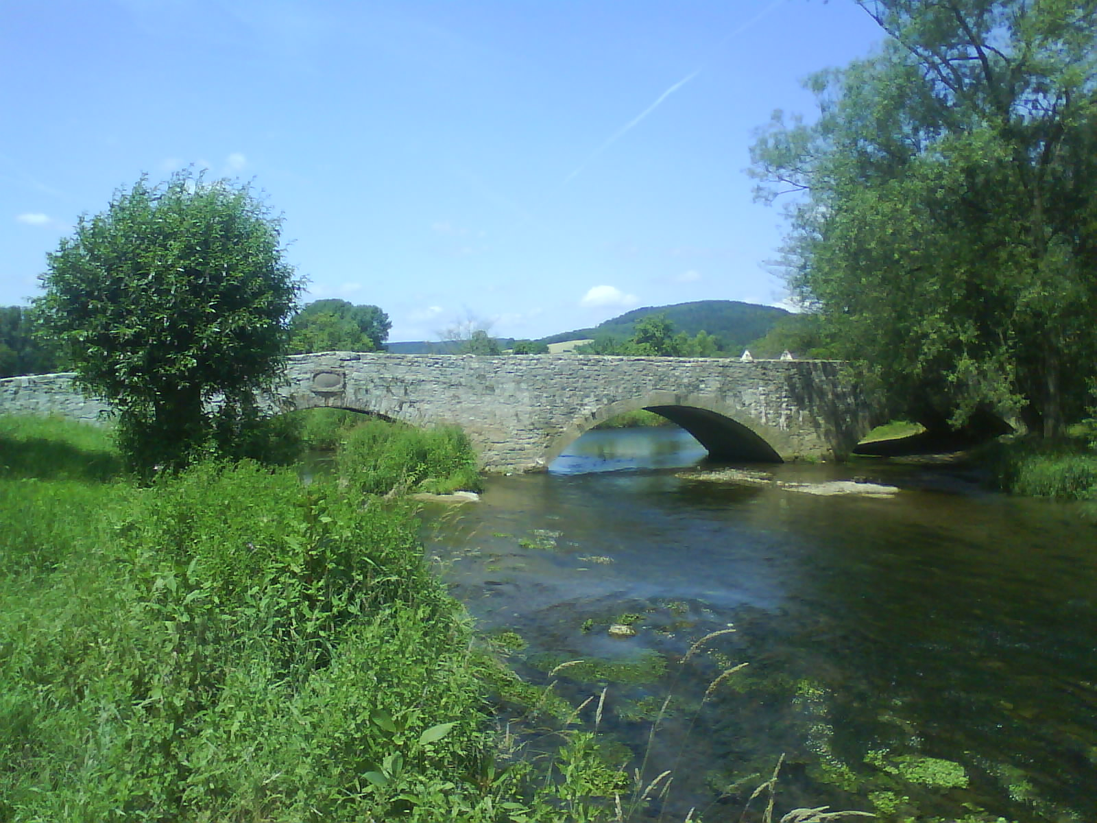 1710 stone bridge crossing the Nethe River in town of Höxter, District of Höxter, North Rhine-Westphalia, Germany.